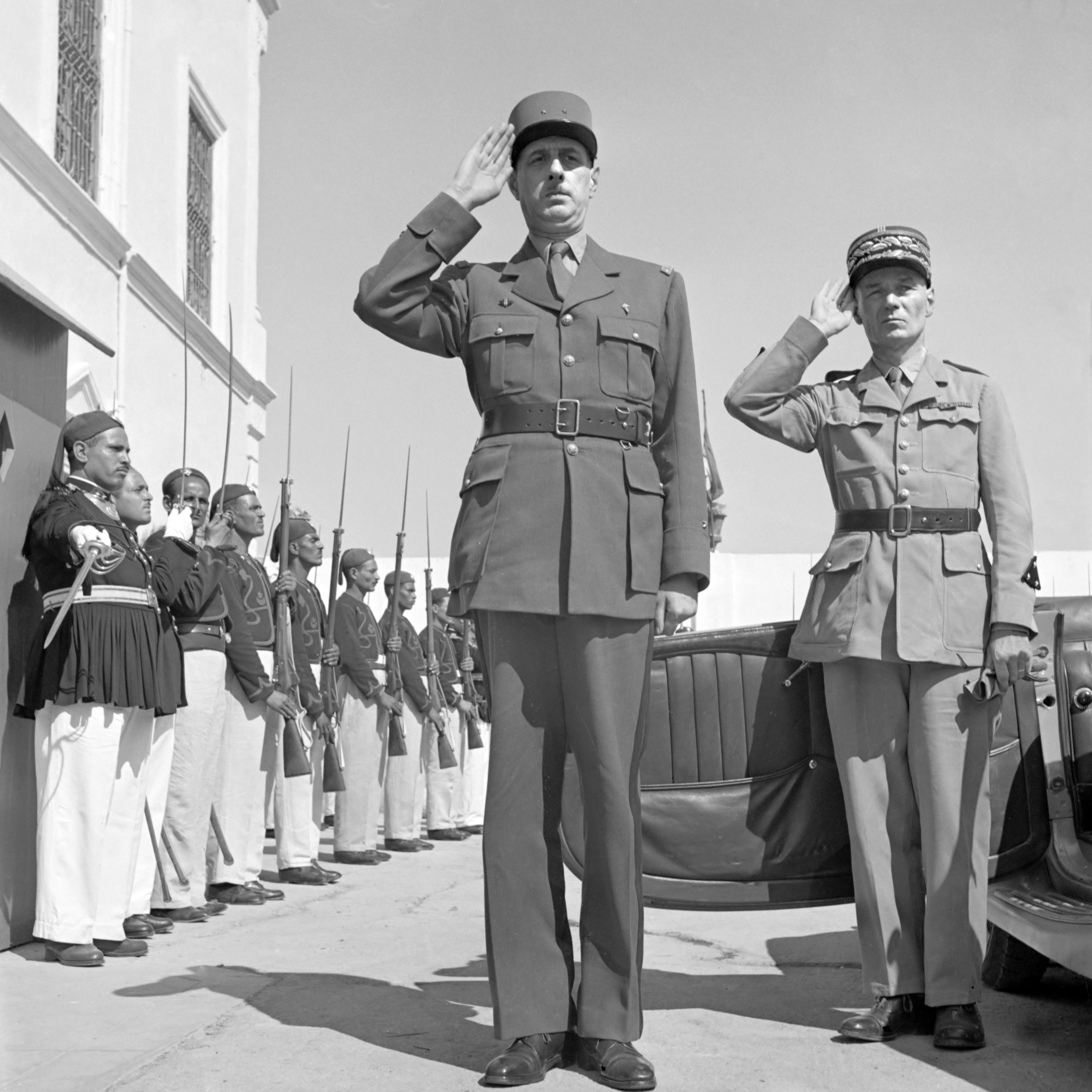 Carthage, Tunisia. General de Gaulle, accompanied by General Mast, saluting as the band plays Marseillaise outside the summer palace of the bey of Tunis.